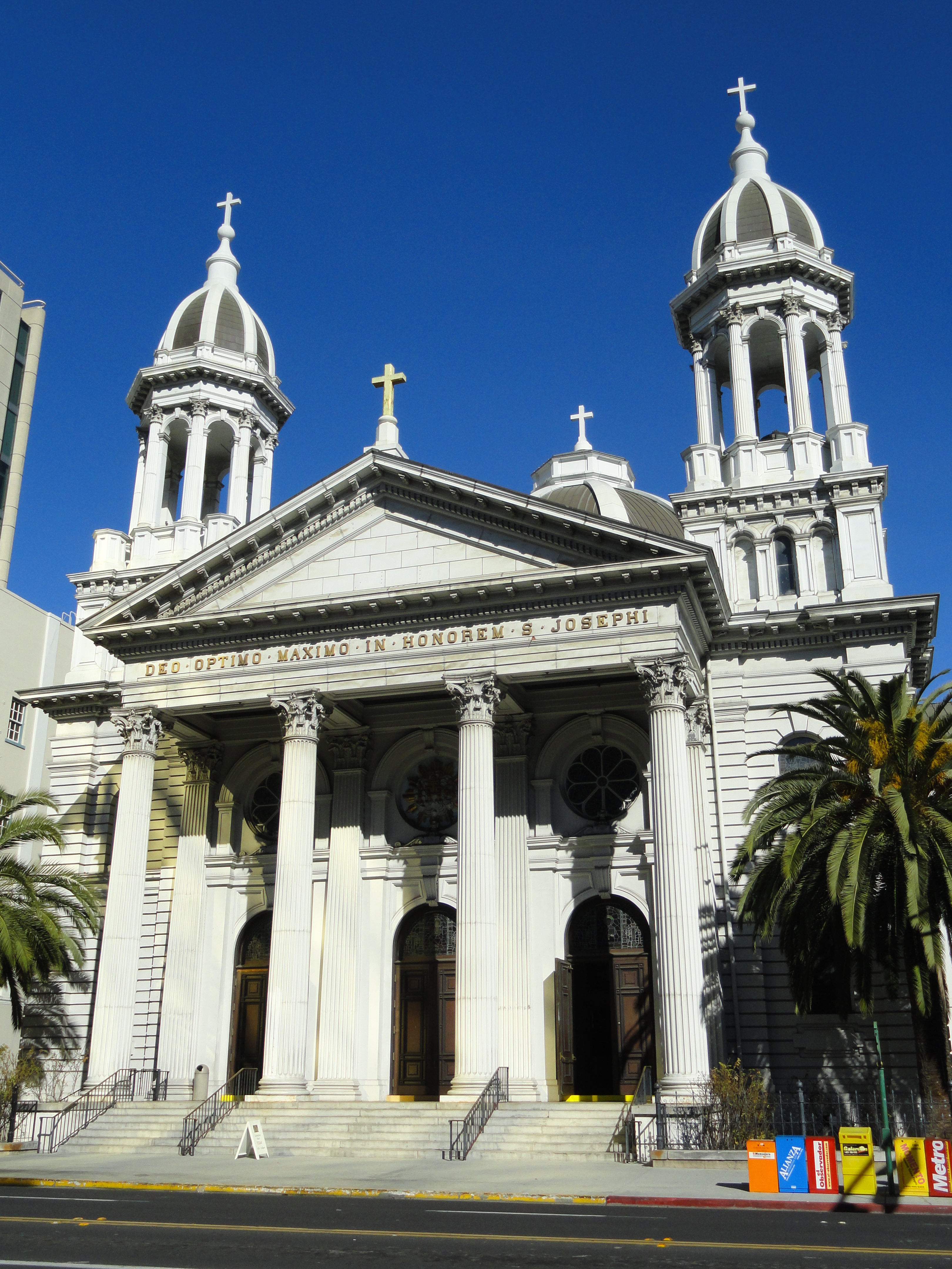 Cathedral Basilica of Saint Joseph, San Jose, California, USA.